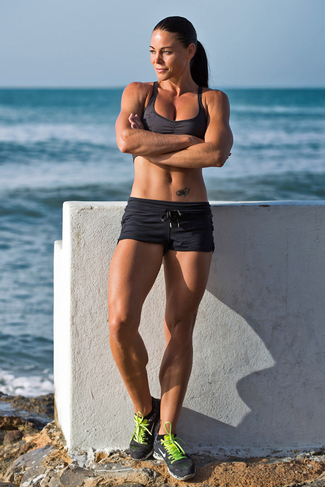 Sabina Dufberg, författare och tränare för Biggest Loser Sverige